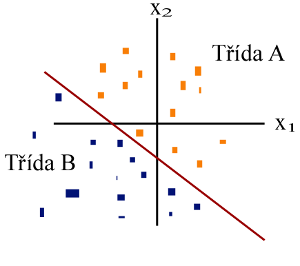 Perceptron as a classifier for lineary separatable images